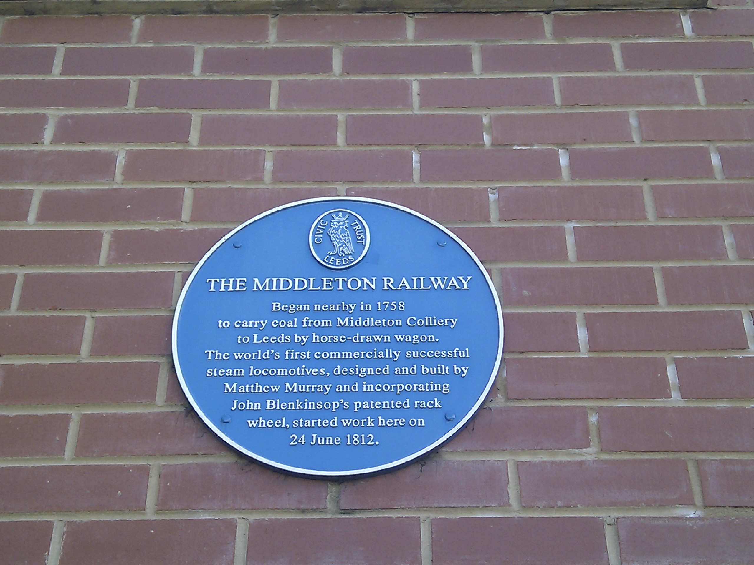 The Middleton Railway Began nearby in 1758 to carry coal from Middleton Colliery to Leeds by horse-drawn wagon. The world's first commercially successful steam locomotives, designed and built by Matthew Murray and incorporating John Blenkinsop's patented rack wheel, started work here on 24 June 1812.